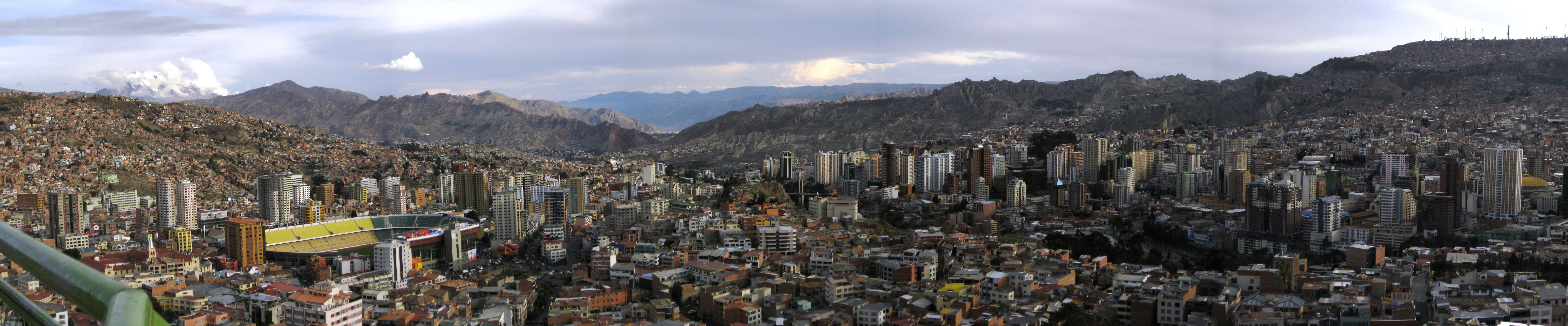 Panoramic view of La Paz - view of football stadium, city centre, bridge of the Americas and Mount Illimani in left background. (5 photos stitched together).